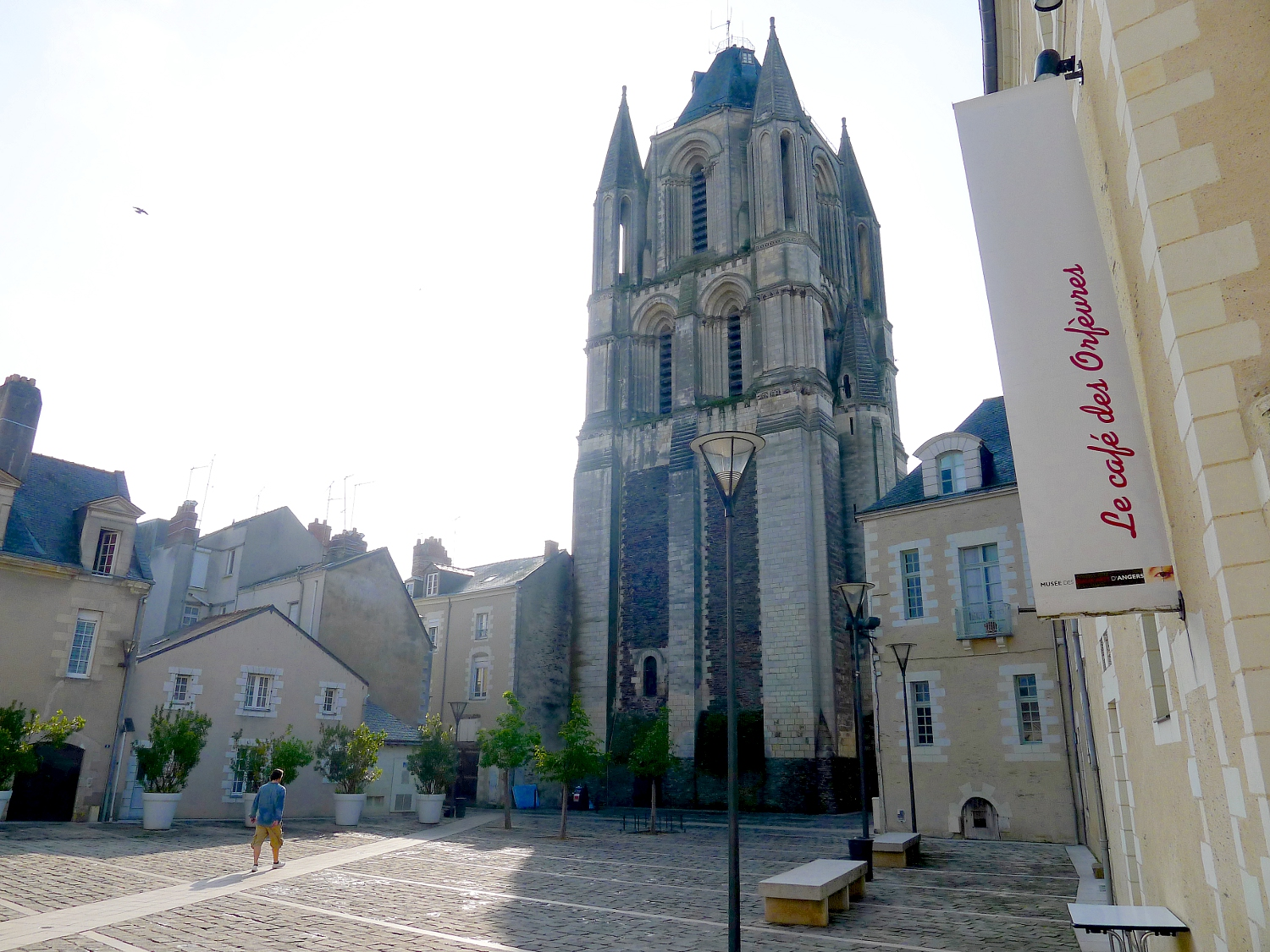 Saint-Eloi place (Angers, France)